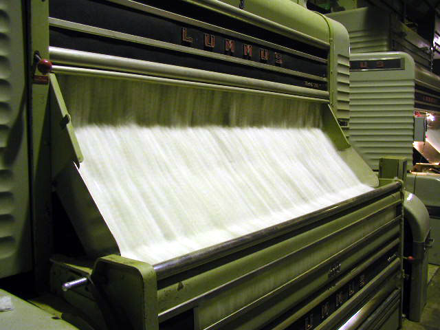 Shot of a cotton gin in action.